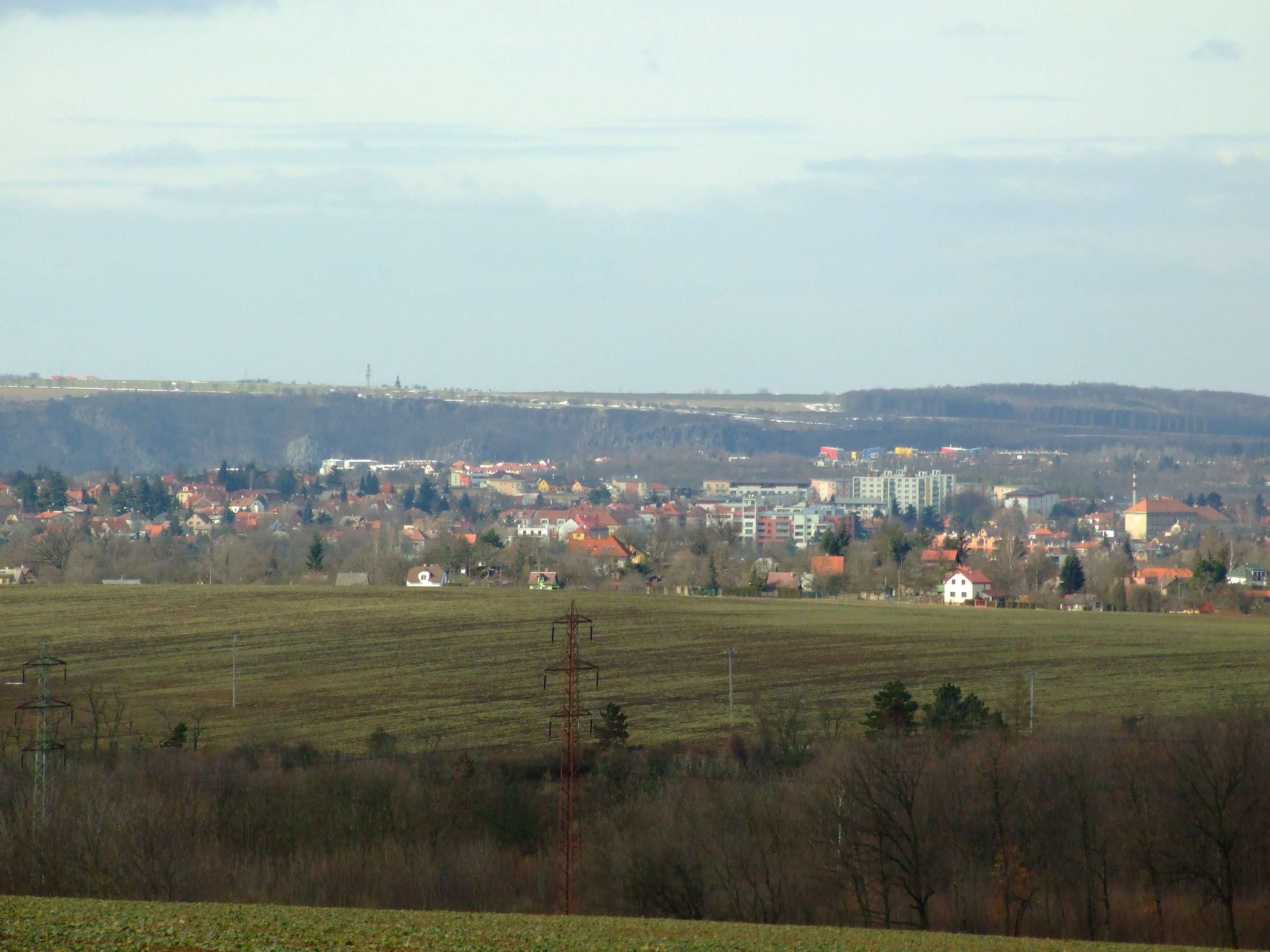 Roztoky u Prahy town seen from the border of Prague, CZhelp